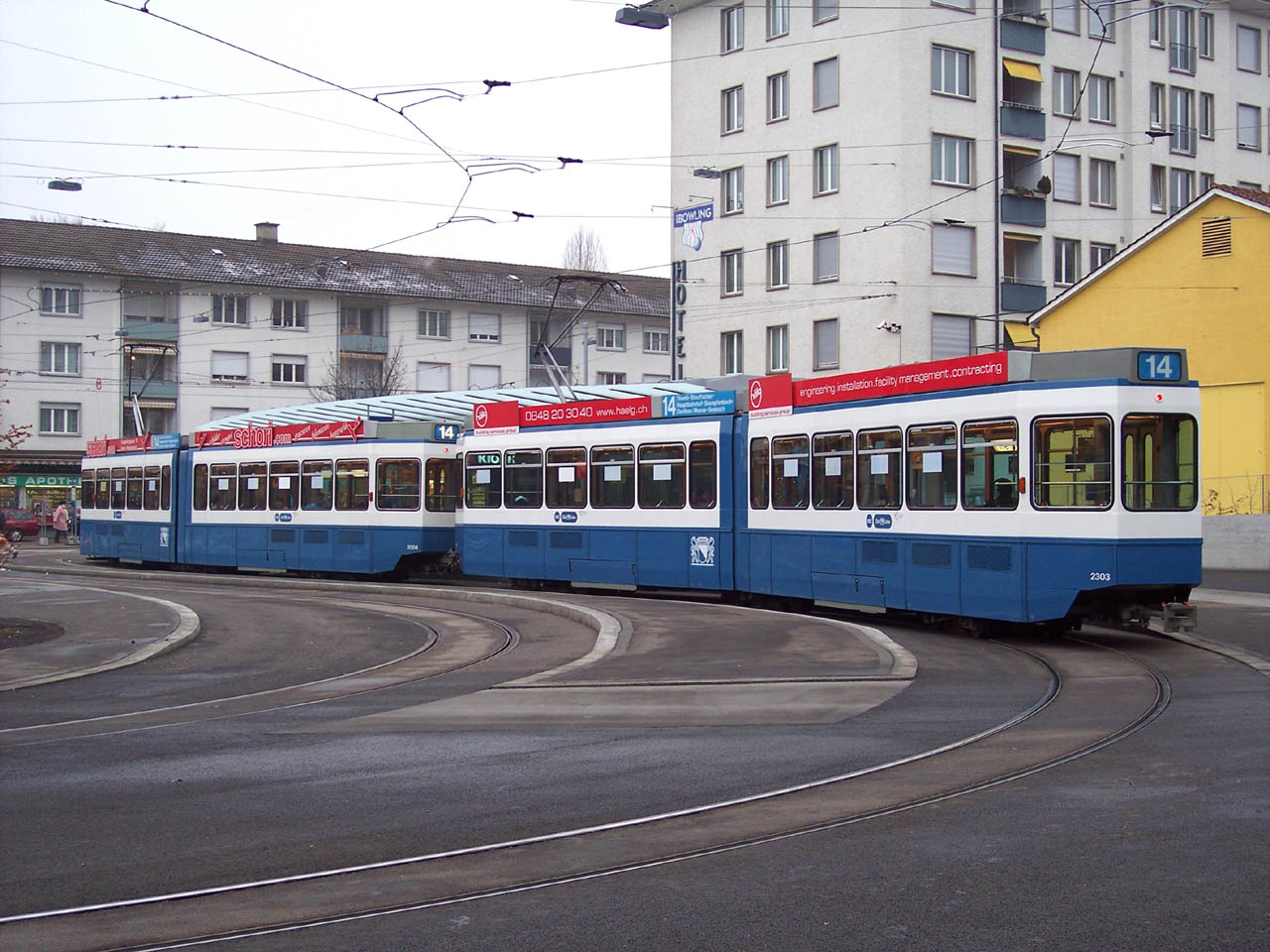 Trams in Zürich: At Seebach terminus, a Be 4/6 "Tram 2000" double set waits for departure. The second car is cabless.